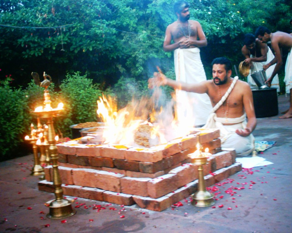 "haviryajna done by a Nambudiri in Kerala"[1] A Hindupriest from the Nambudiri Cast in Kerala/India performs a Yajna (also called Havan or Homa) and throws offerings into a consecrated fire.